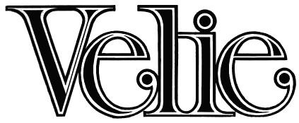 Velie logo